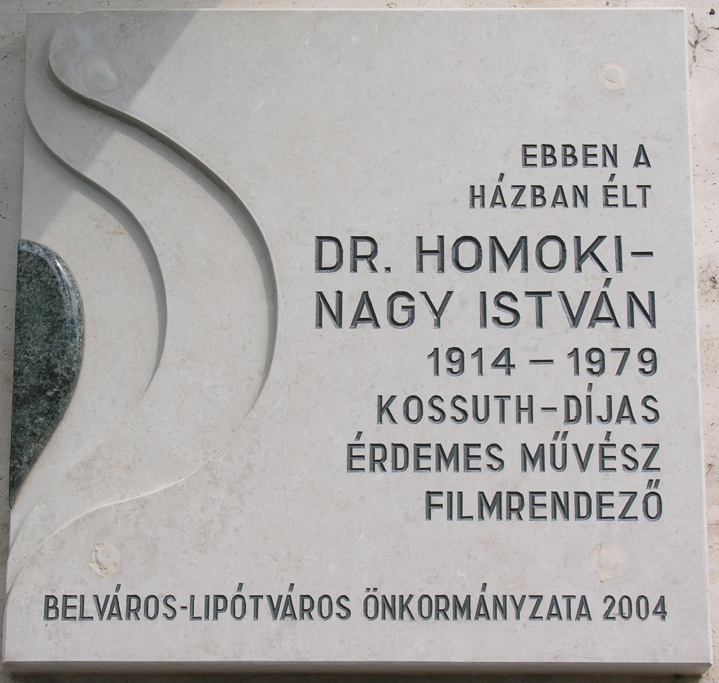 Commemorative plaque of István Homoki Nagy in Budapest District V, Petőfi Square No 3-5